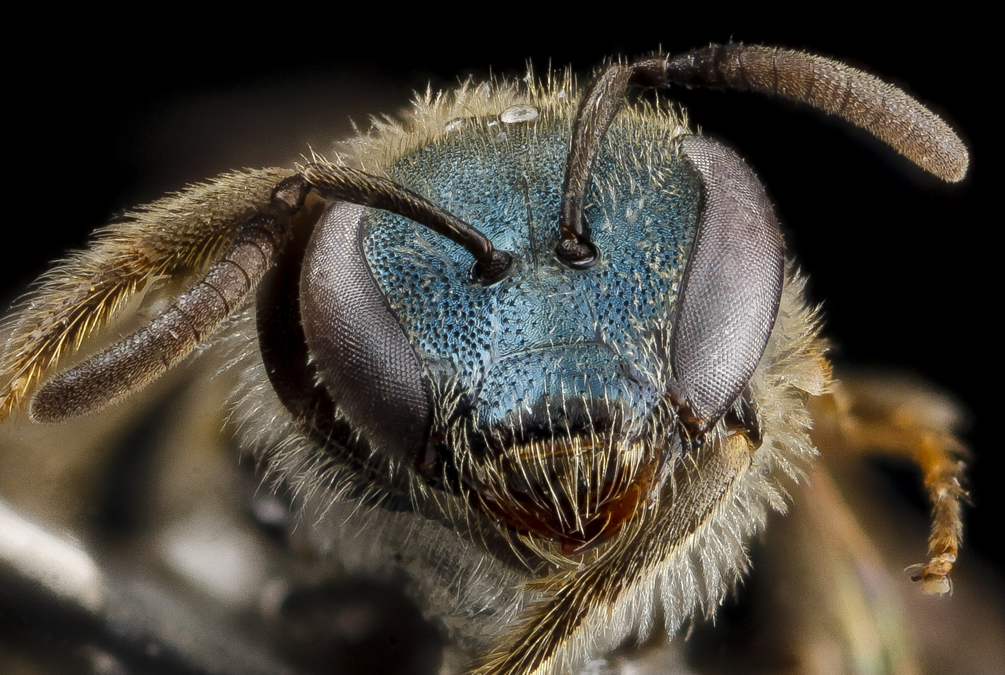 Lasioglossum creberrimum, Big Thicket National Preserve, Texas